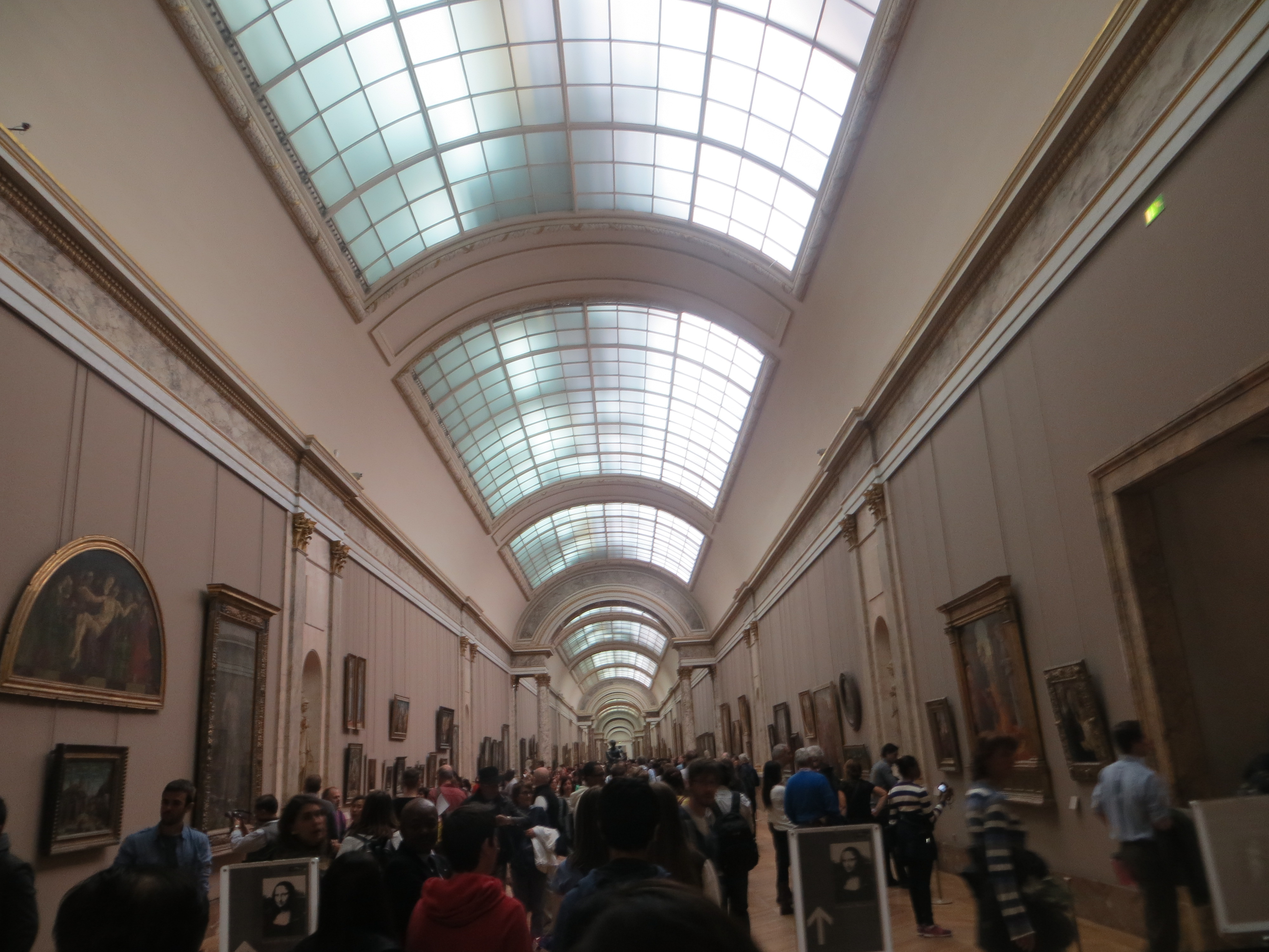 Musée du Louvre, Paris